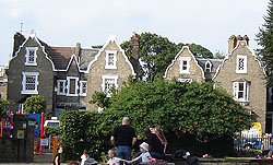 De Beauvoir Town: The distinctive Dutch gables and mullioned windows of houses in De Beauvoir Square. 3 Sep 2005. Credit: Fin Fahey.